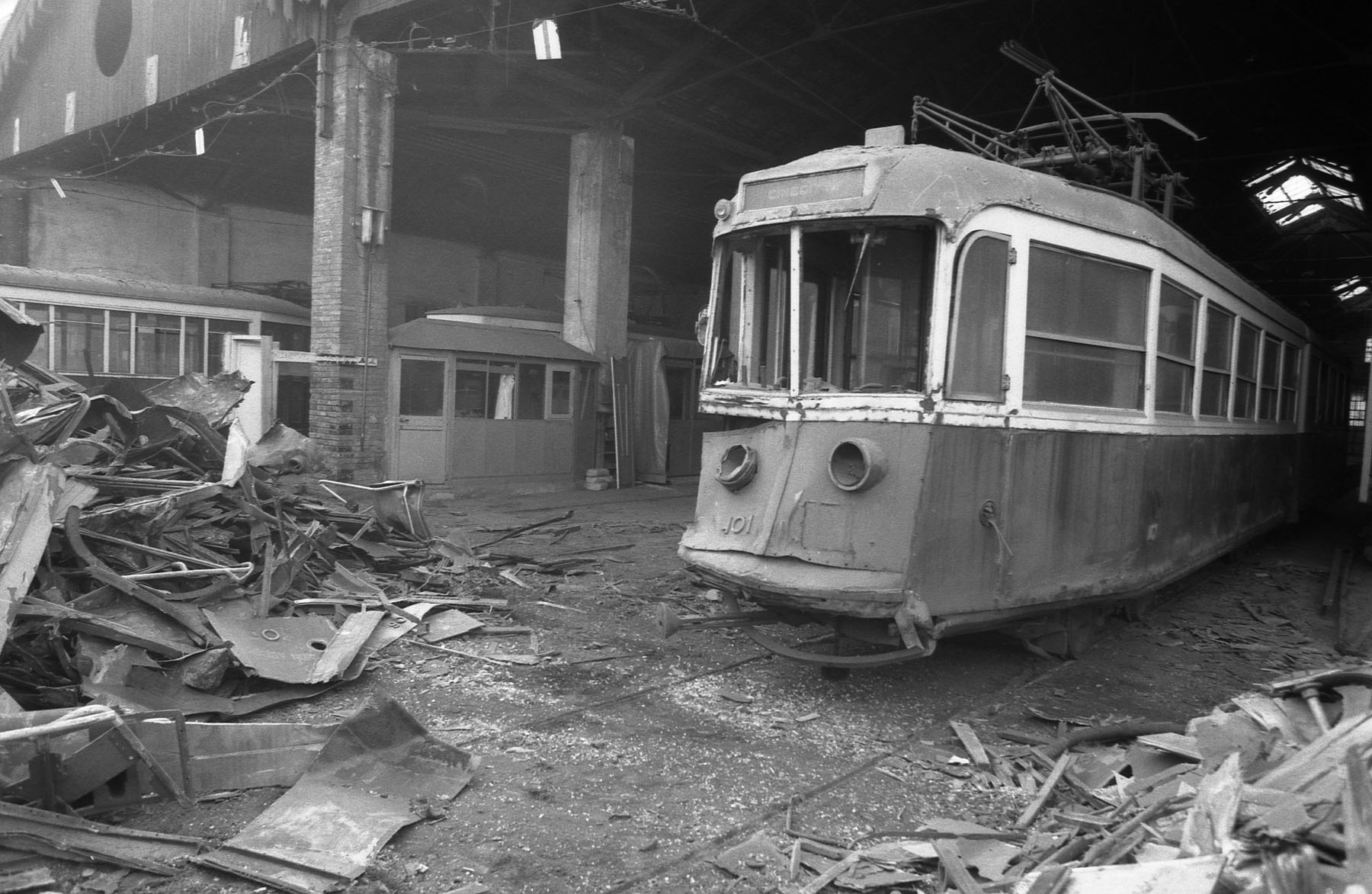 A Stefer Stanga series 400 tram of STEFER, former public regional transport service of Lazio, saved from demolition in 1992. The tram was built in 1941 and decommissioned in 1980, and was recovered in an hangar of A.Co.Tra.L. (formerly Stefer). In 2008 the tram in the picture, identified by the number 401, was given to ATTS, an association for the conservation of historic trams based in Turin. The only other surviving tram of the series, identified by the number 404, is exposed in Rome at the Railway museum in Porta San Paolo.